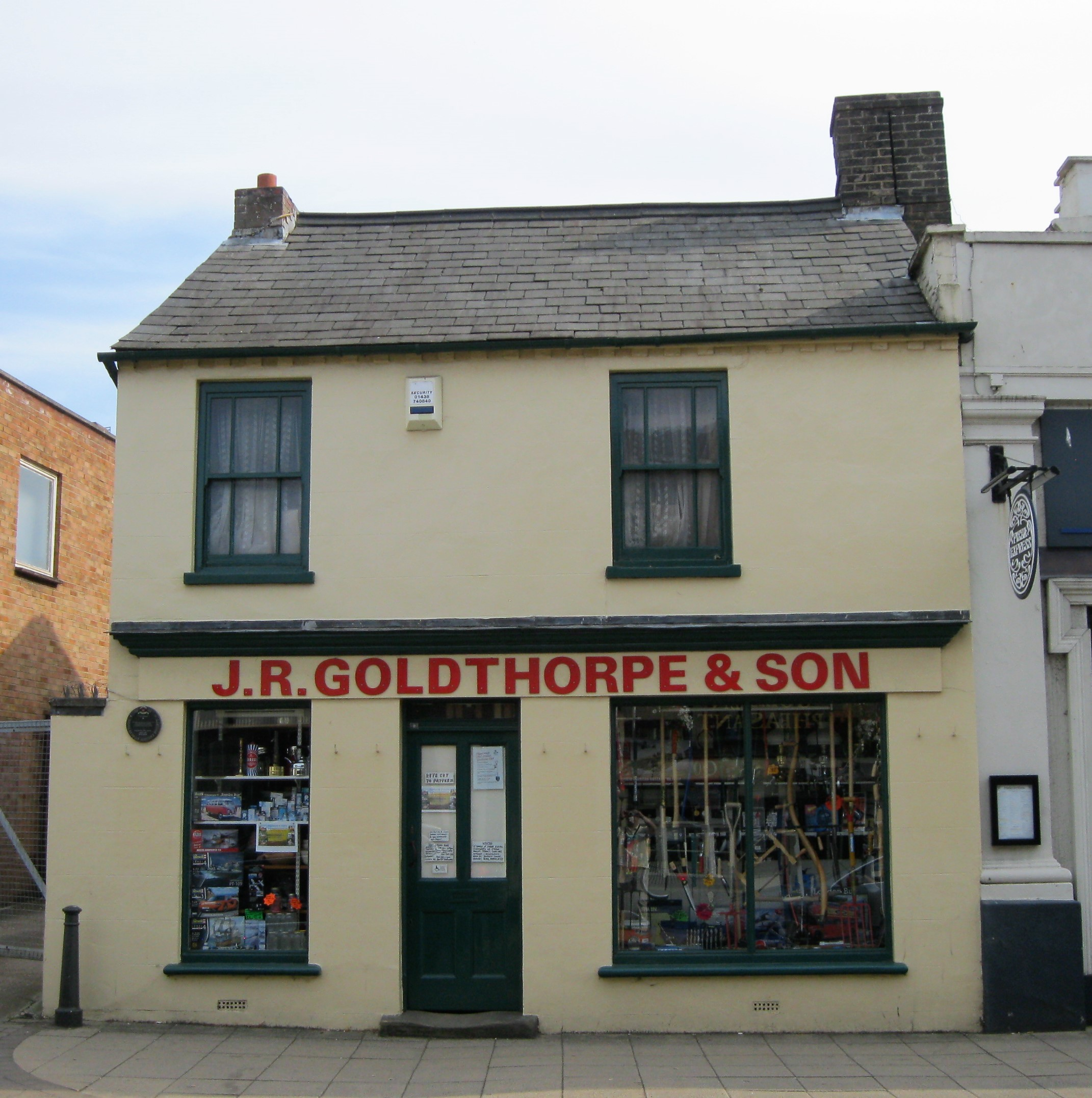 J.R. Goldthorpe & Son, Biggleswade The oldest established shop in the town